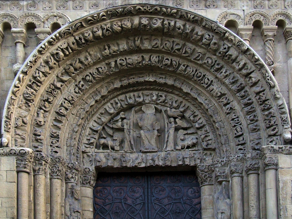 Rochester Cathedral, Kent, England